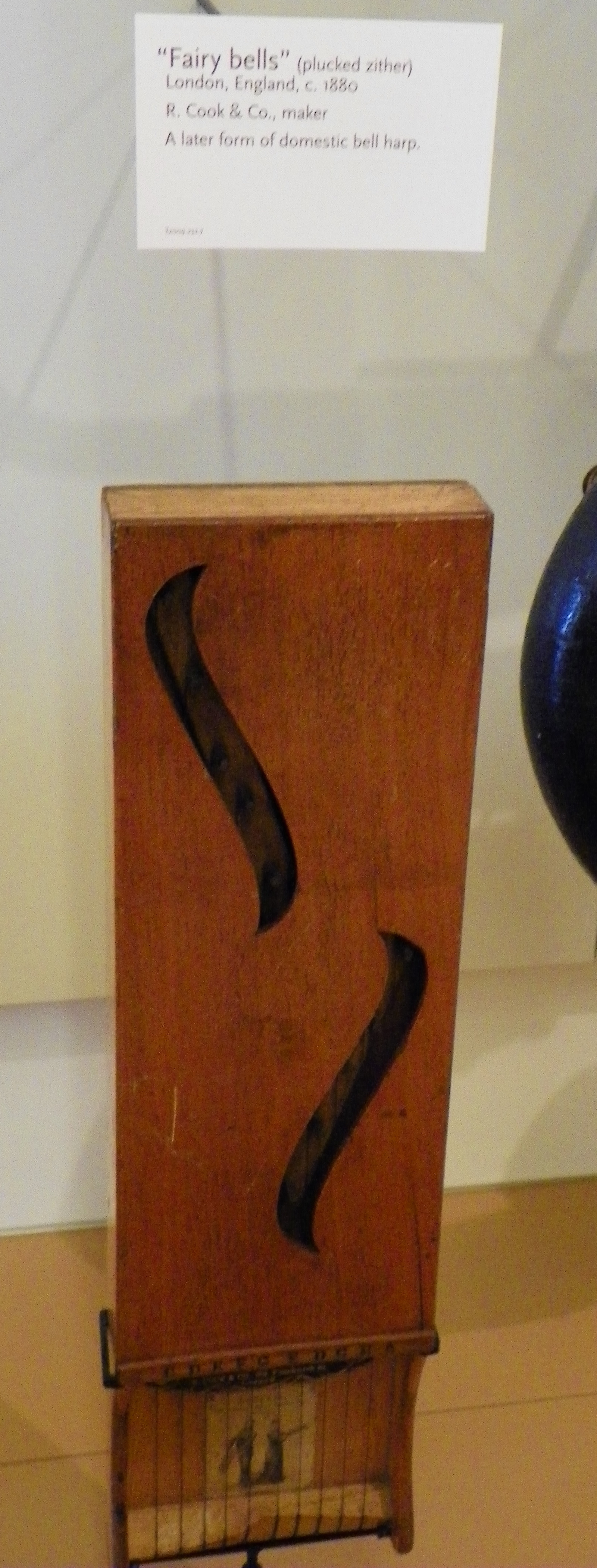 Photograph of musical instrument(s) taken at the Musical Instrument Museum (Phoenix) on 2011-04-26. "Fairy Bells" (plucked zither) London, England, c. 1880 R. Cook & Co., maker A later form of domestic bell harp.